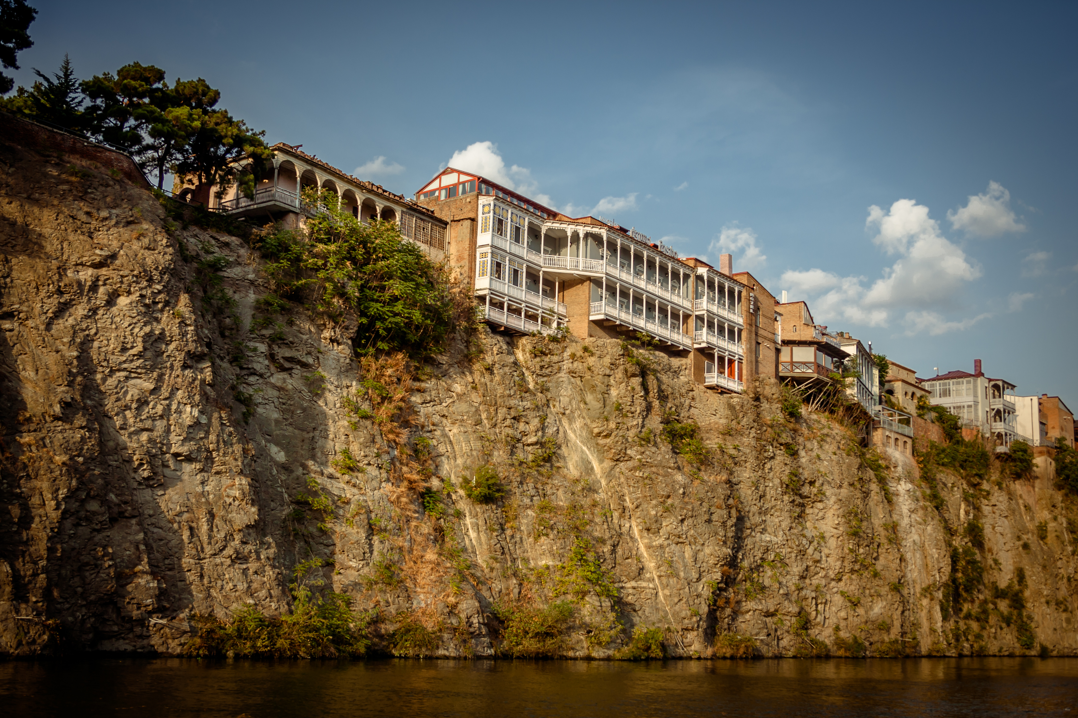 Historical part of Tbilisi.